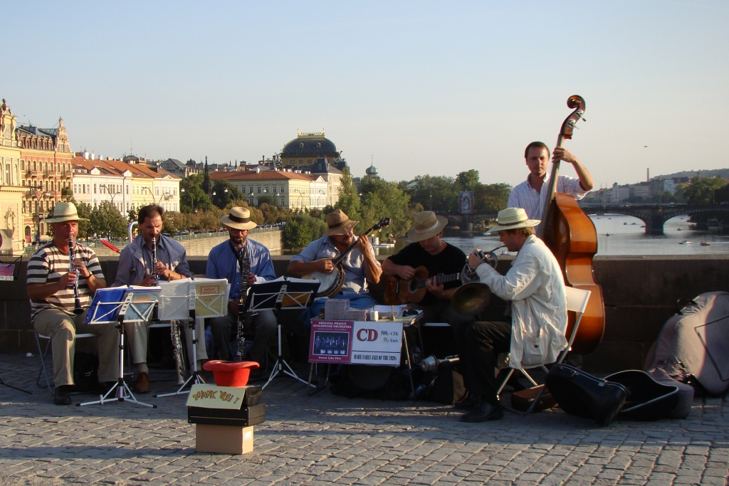 Original Prague Syncopated Orchestra performing at Charles bridge in Prague